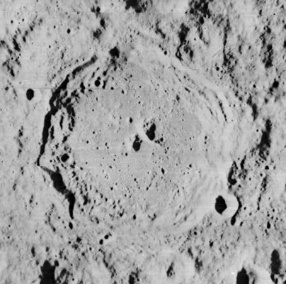 Sklodowska, on the moon.